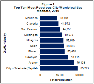 Top ten most populous city/municipalities of Masbate in 2010.